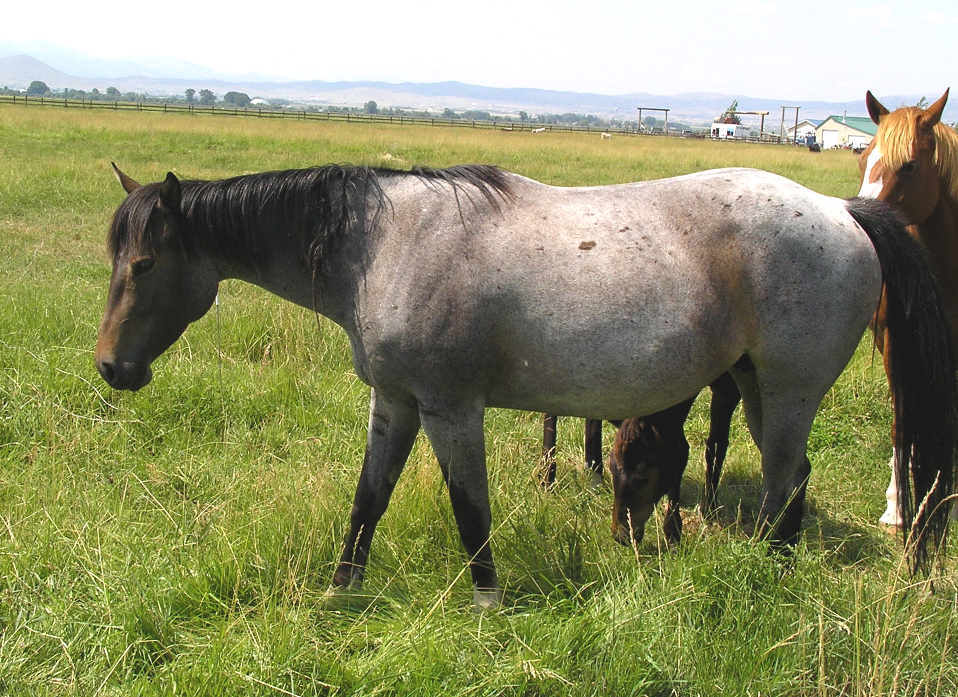 A bay roan.